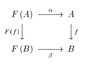 The commutative diagram, which defines a property required by morphisms of the original category, so that they can be morphism of the newly defined category of F-algebras